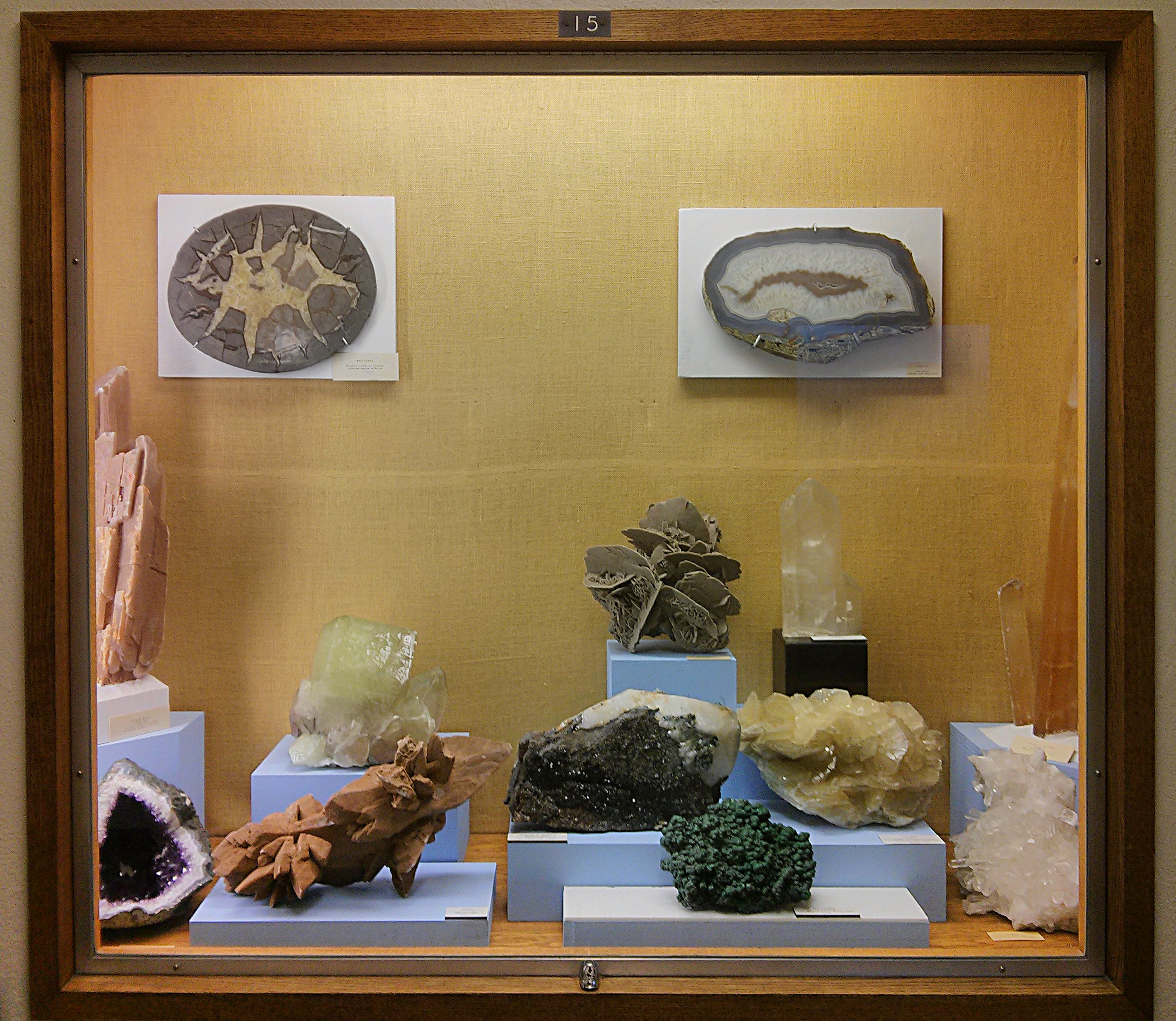 René-Bureau geological museum, Laval University, Quebec